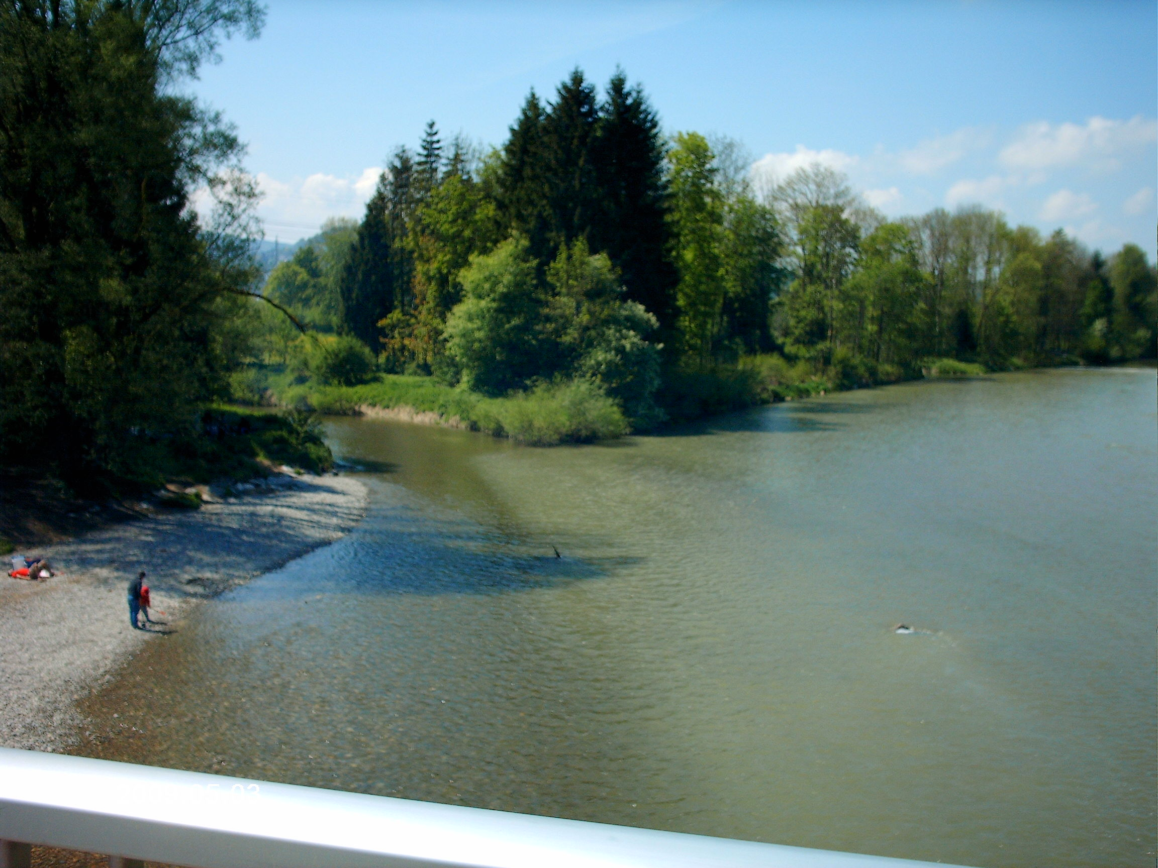 Glatt meets Uze